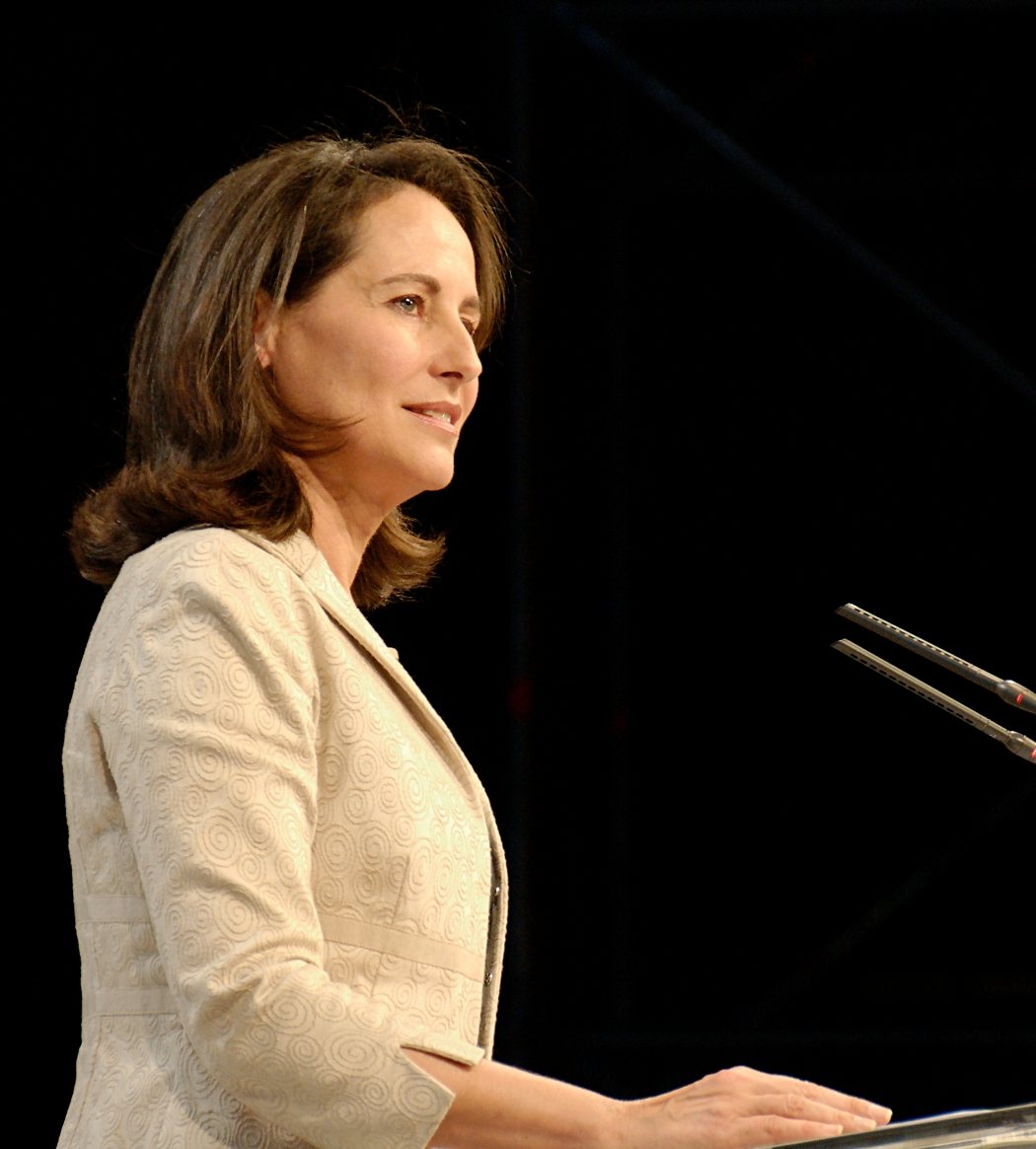 Ségolène Royal at a meeting held on Feb. 6, 2007 by the French Socialist Party at the Carpentier Hall in Paris.